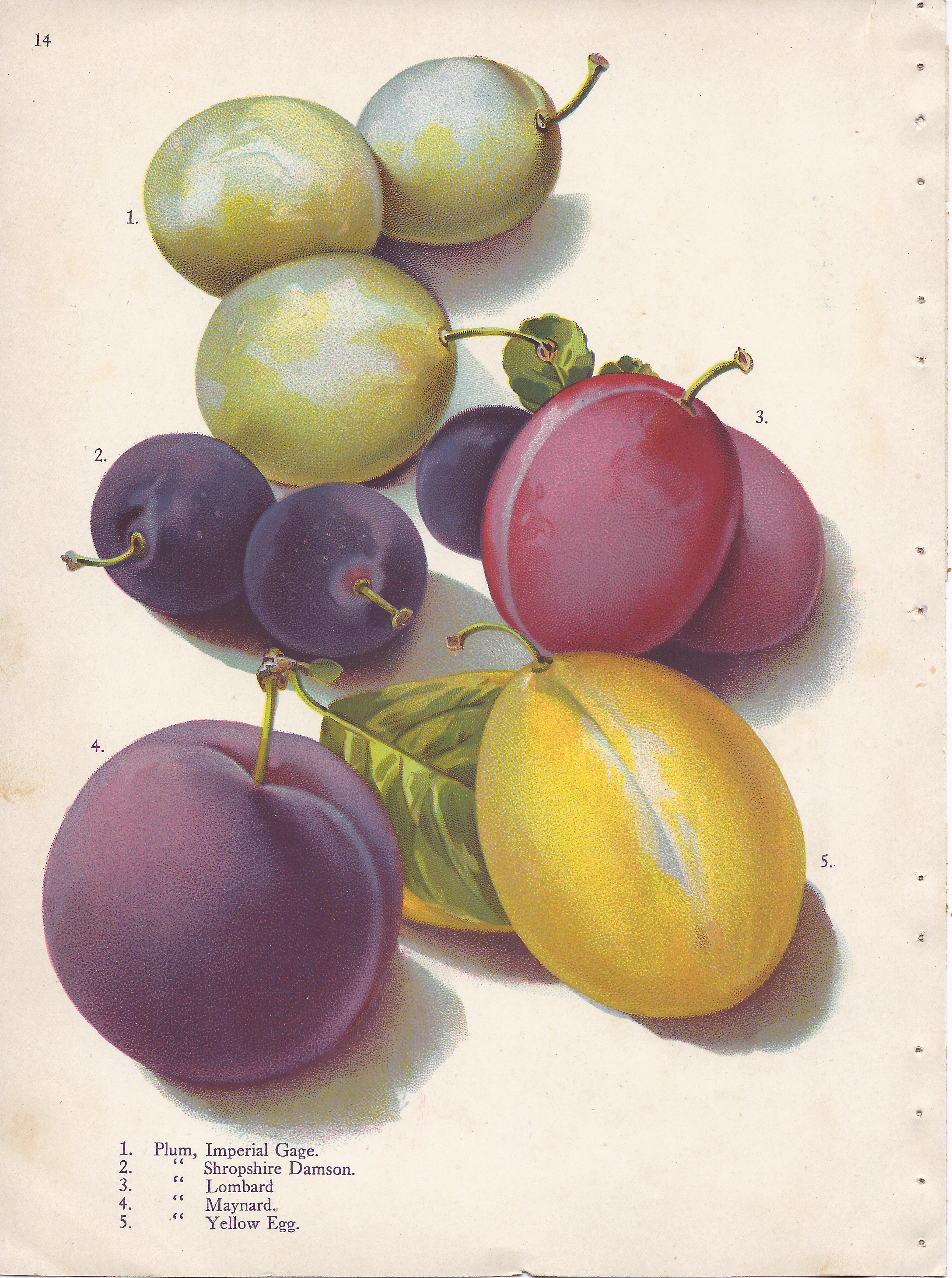 1909 illustrations by Alois Lunzer depicting plum cultivars Imperial Gage, Shropshire Damson, Lombard, Maynard and Yellow Egg